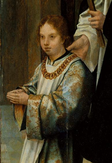 de Triptico dos Infantes - Mestre de Lourinhã